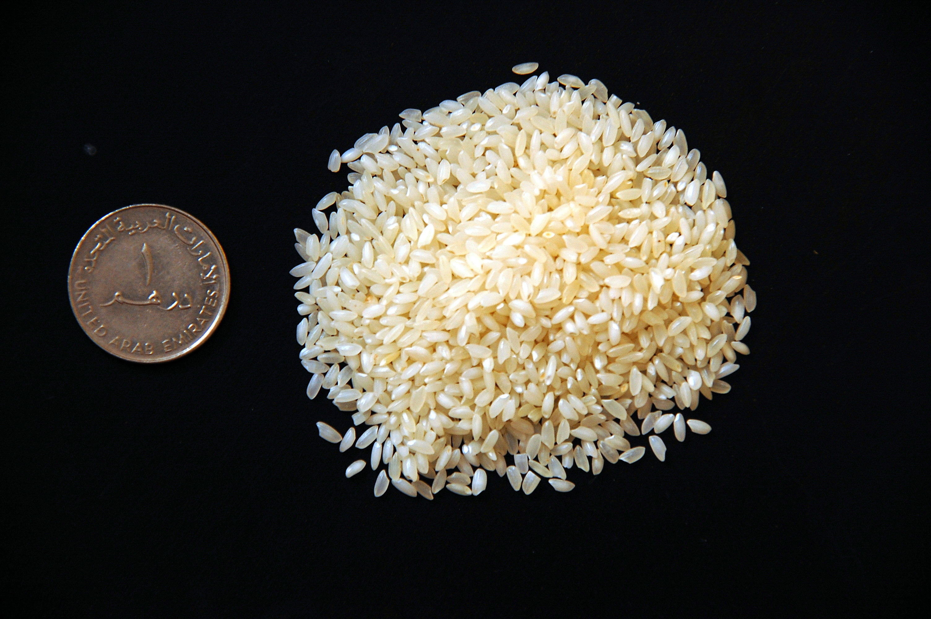 Jeerakasala rice. A UAE Dirham is also shown alongside to better understand the relative size